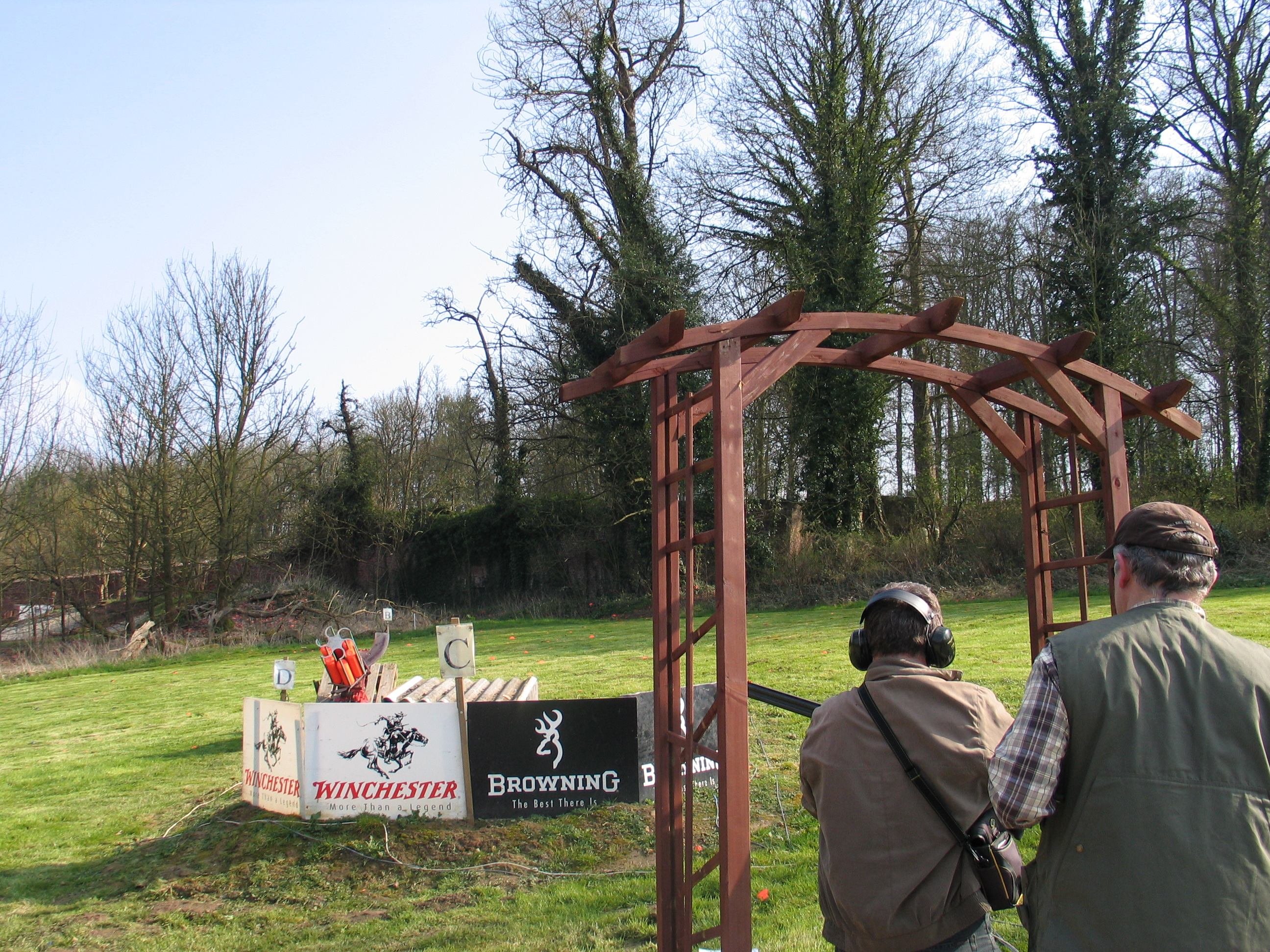 Skeet shooting - kleiduifschieten - own work by Paul Hermans under GFDL and cc-by-sa